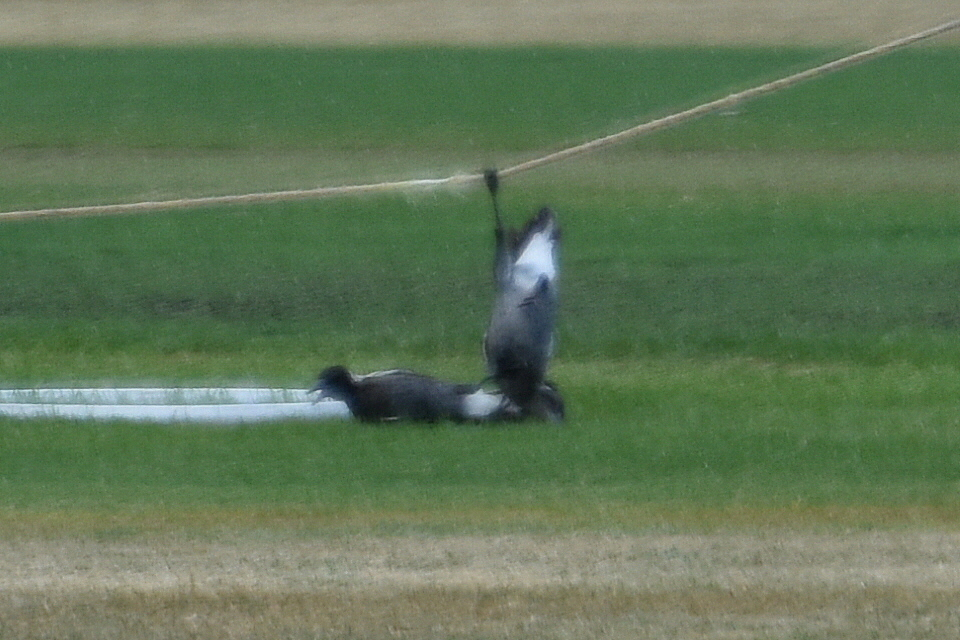 Magpies behaving very strangely, Kensington Park, Kensington, Sydney (I have been told they are playing when they do this sort of thing)